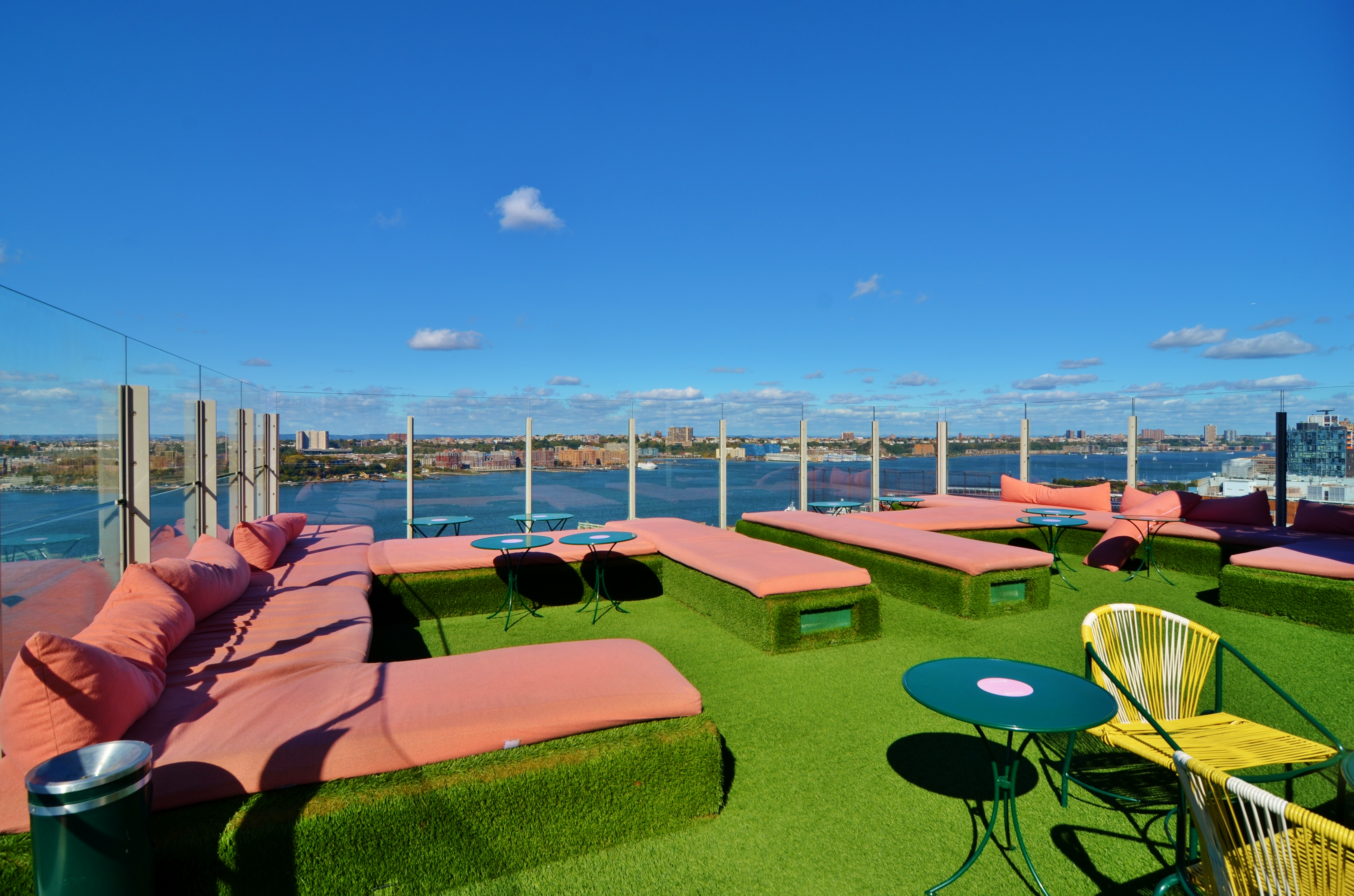 At the Top of the Standard roofdeck